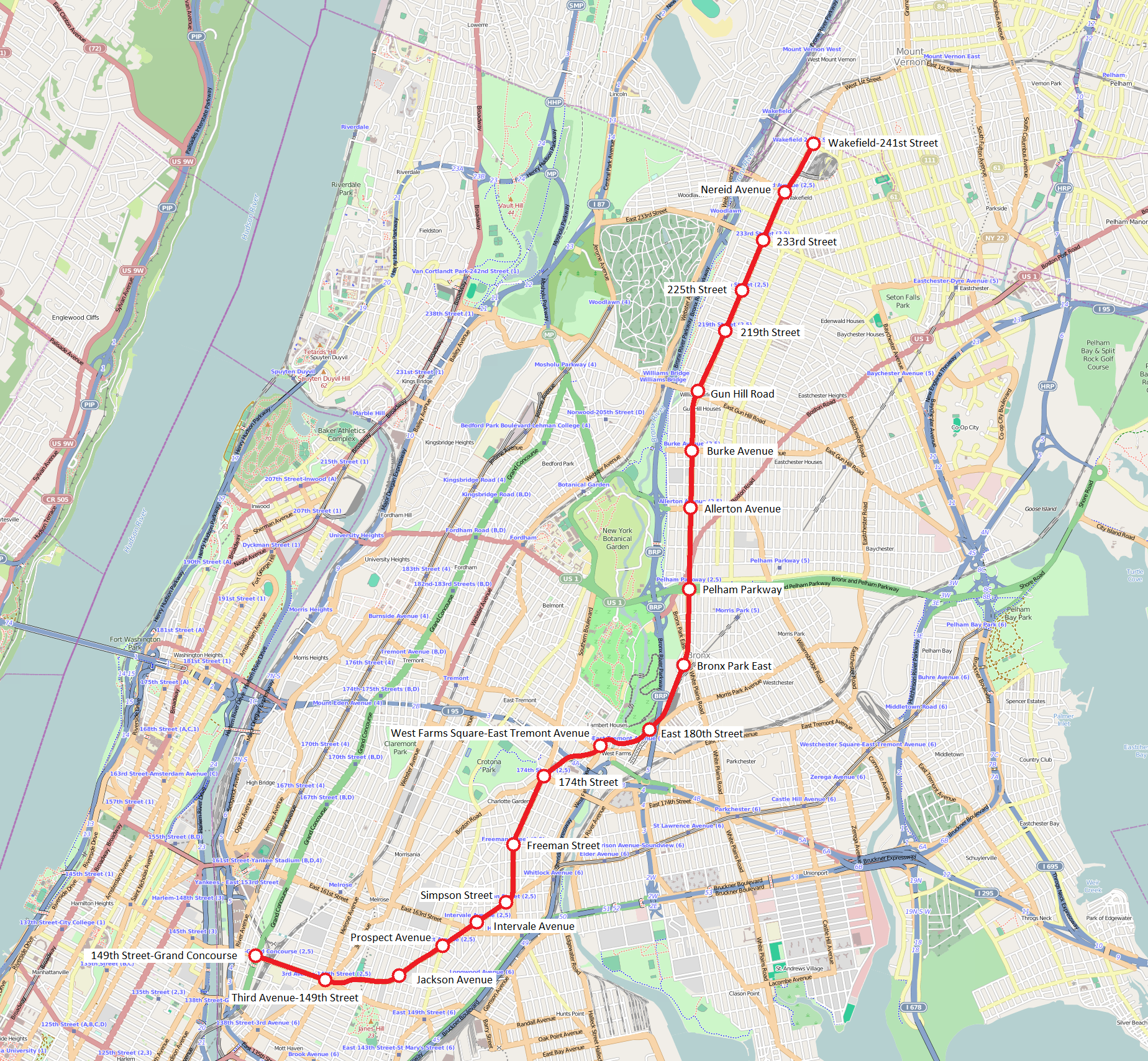 IRT White Plains Road Line map